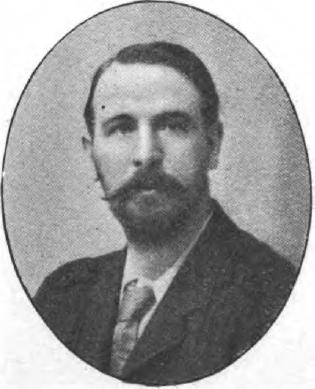 William Sanders, prominent member of the Independent Labour Party and future Labour MP. Taken in or before 1905.